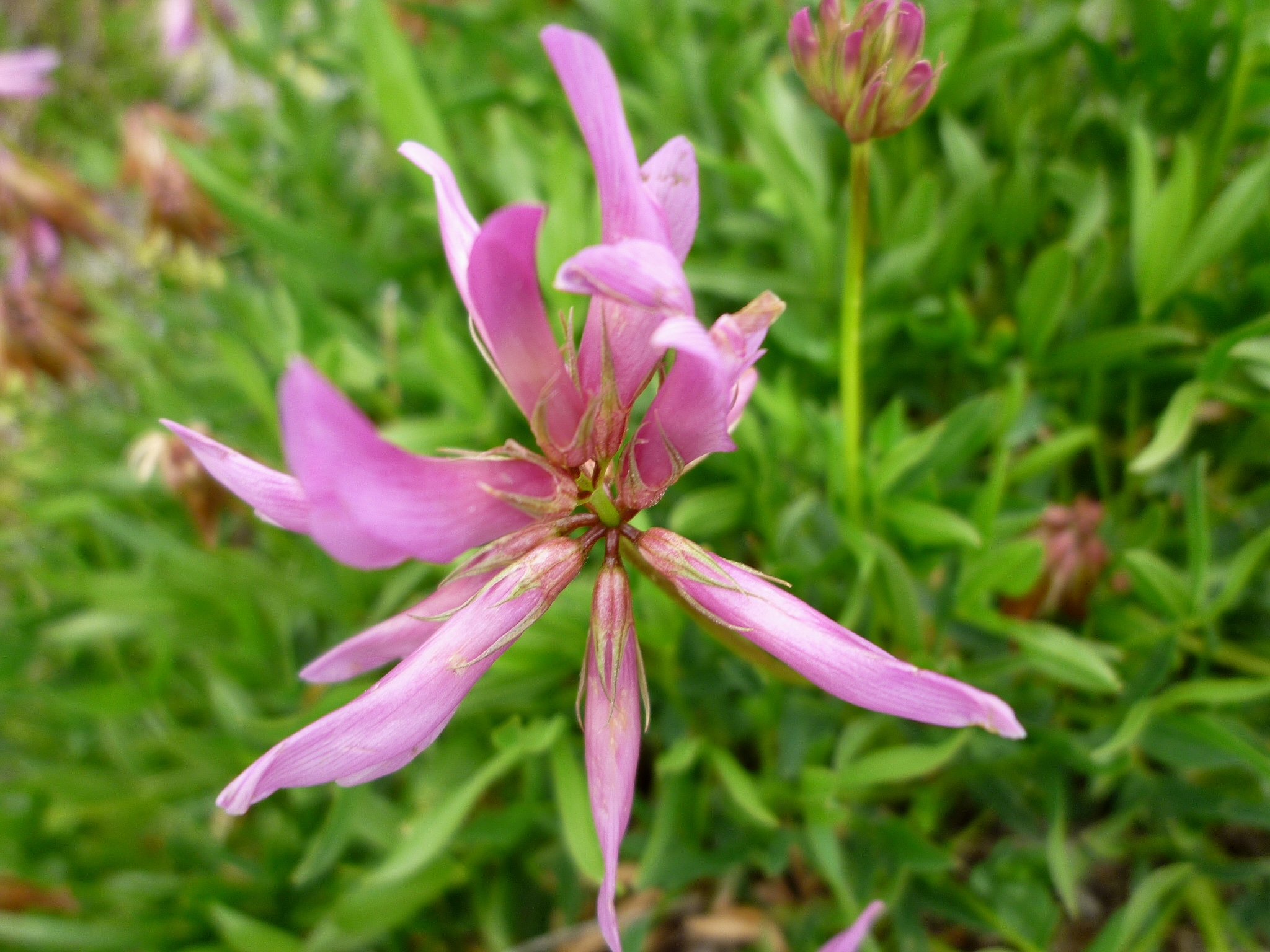 Trifolium alpinum. In Cabdella (Pallars Jussà - Catalunya. To 2.230 m altitude